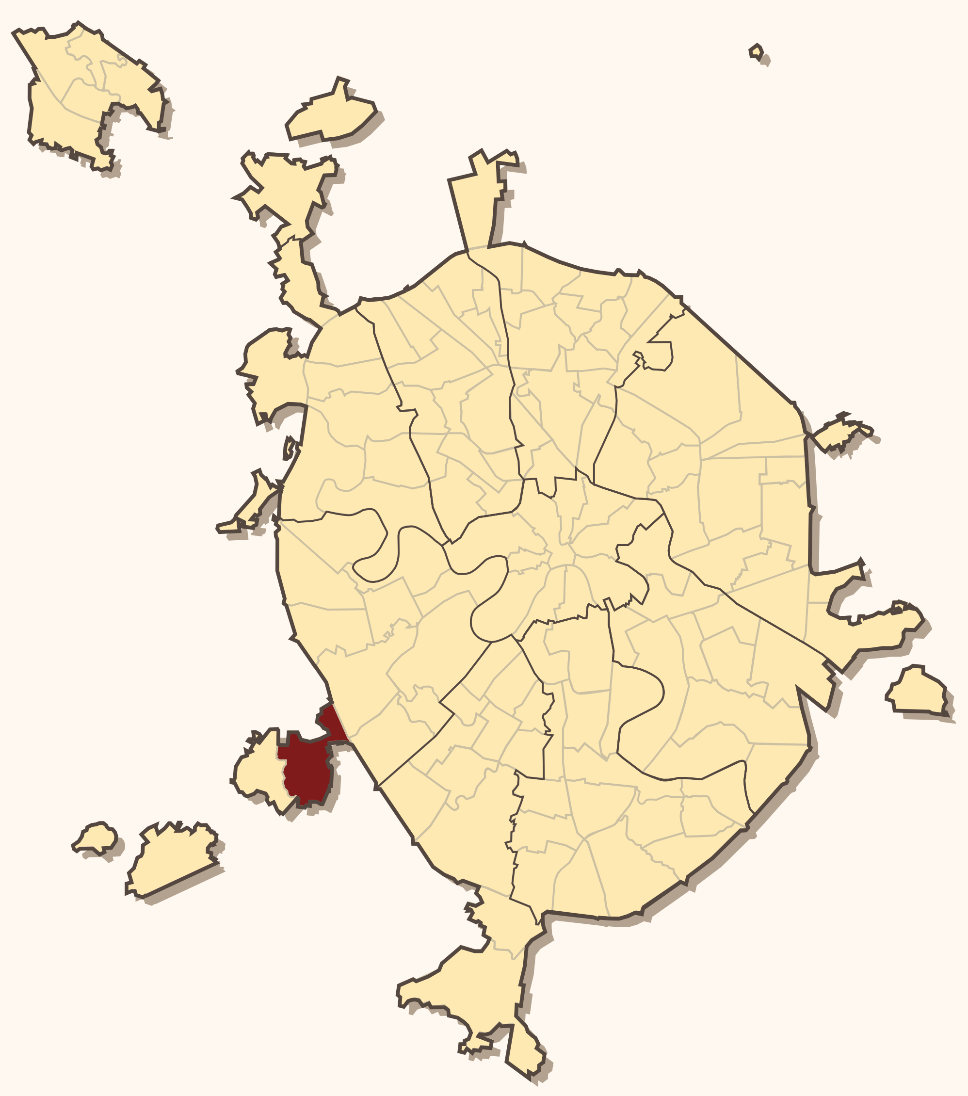 Moscow districts map